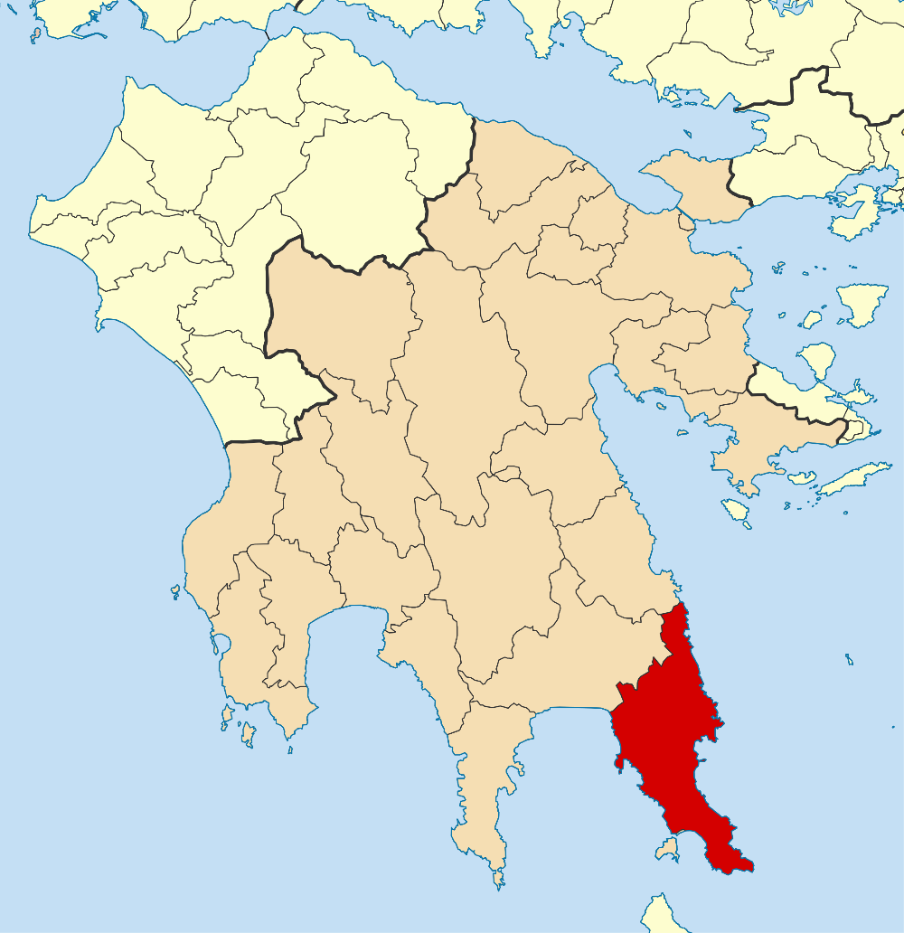 Locator map for Monemvasia municipality in Greek region Peloponnese (2011)